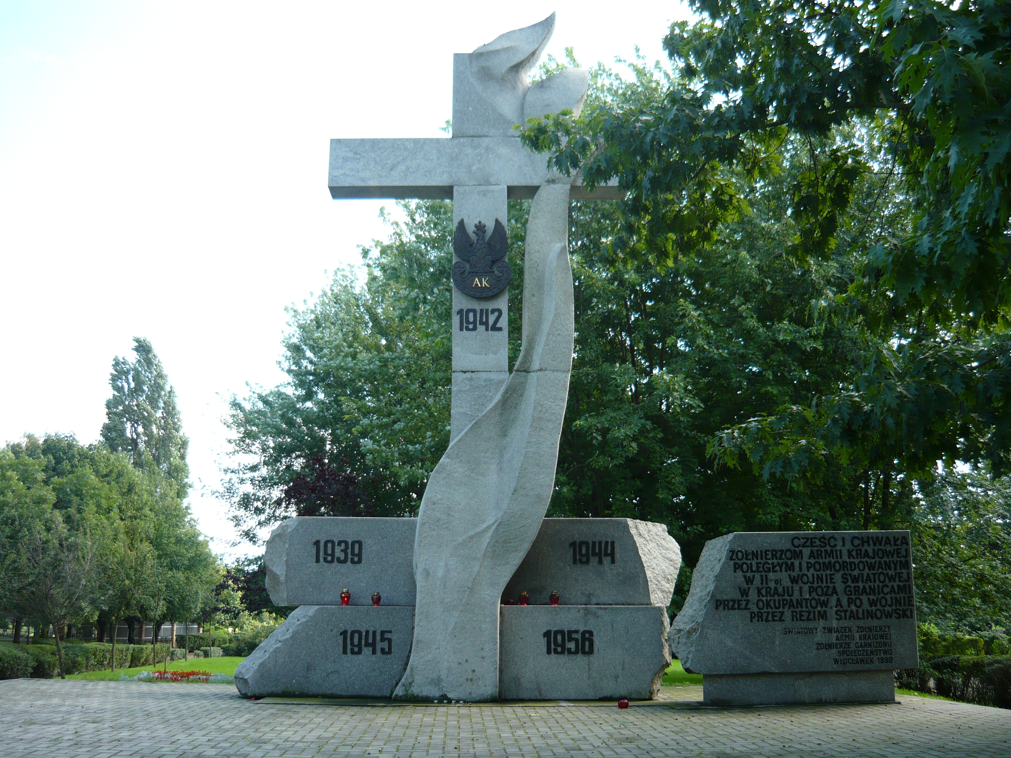 The monument of AK soliders, built by Włocławek's veterans in 1999, near the Church of Saintest Savior.